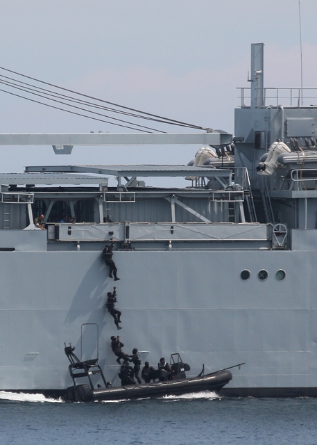 The PASKAL commandos using the rappelling to climbing up to the KD Sri Inderasakti during a demo at the Ex Pangkor War 6/10.